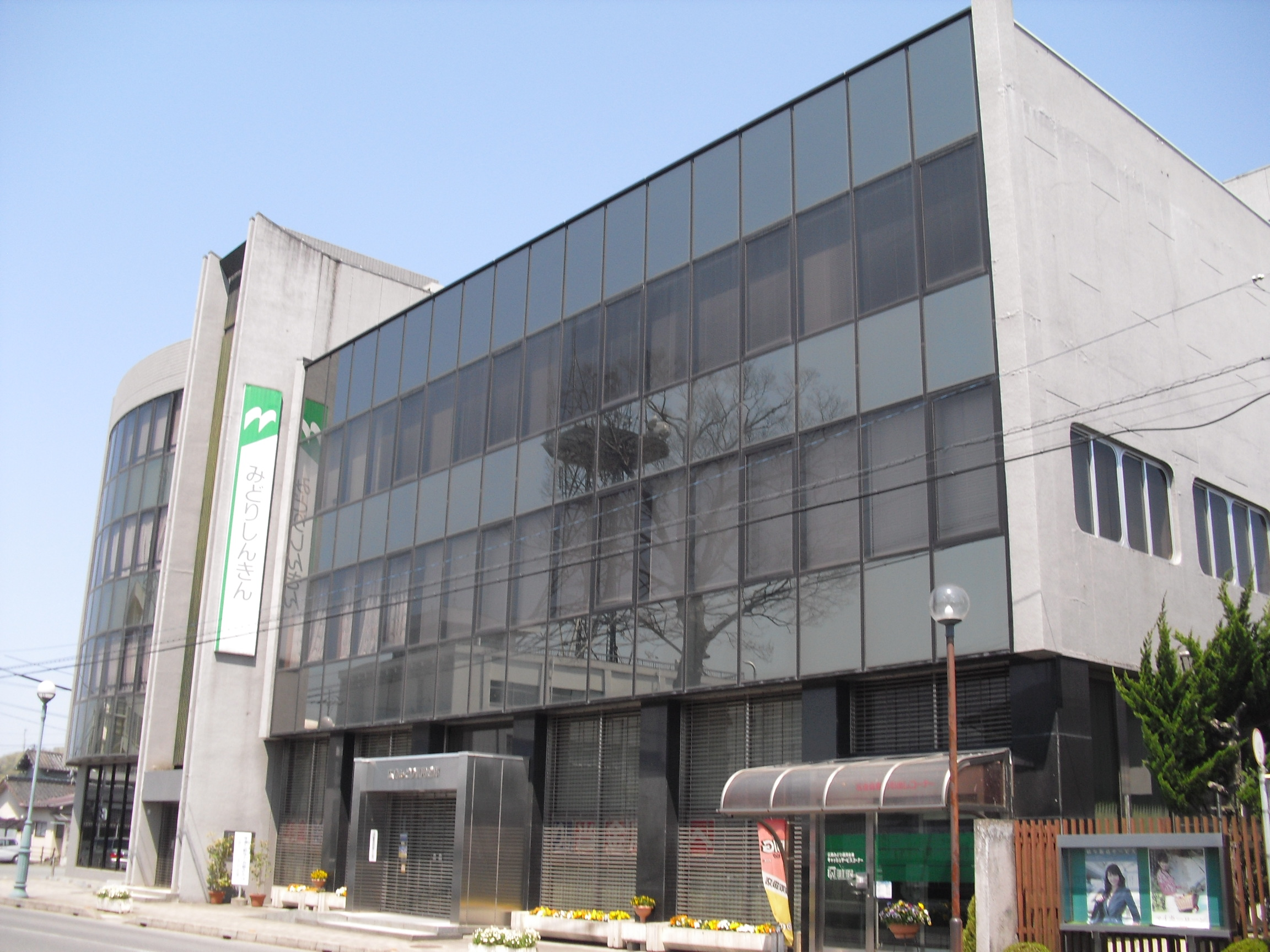 Hiroshima Midori shinkin bank